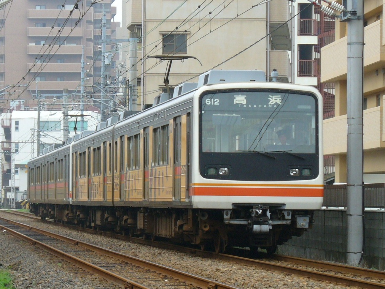 A pair of Iyotetsu 610 series 2-car EMUs led by set 612